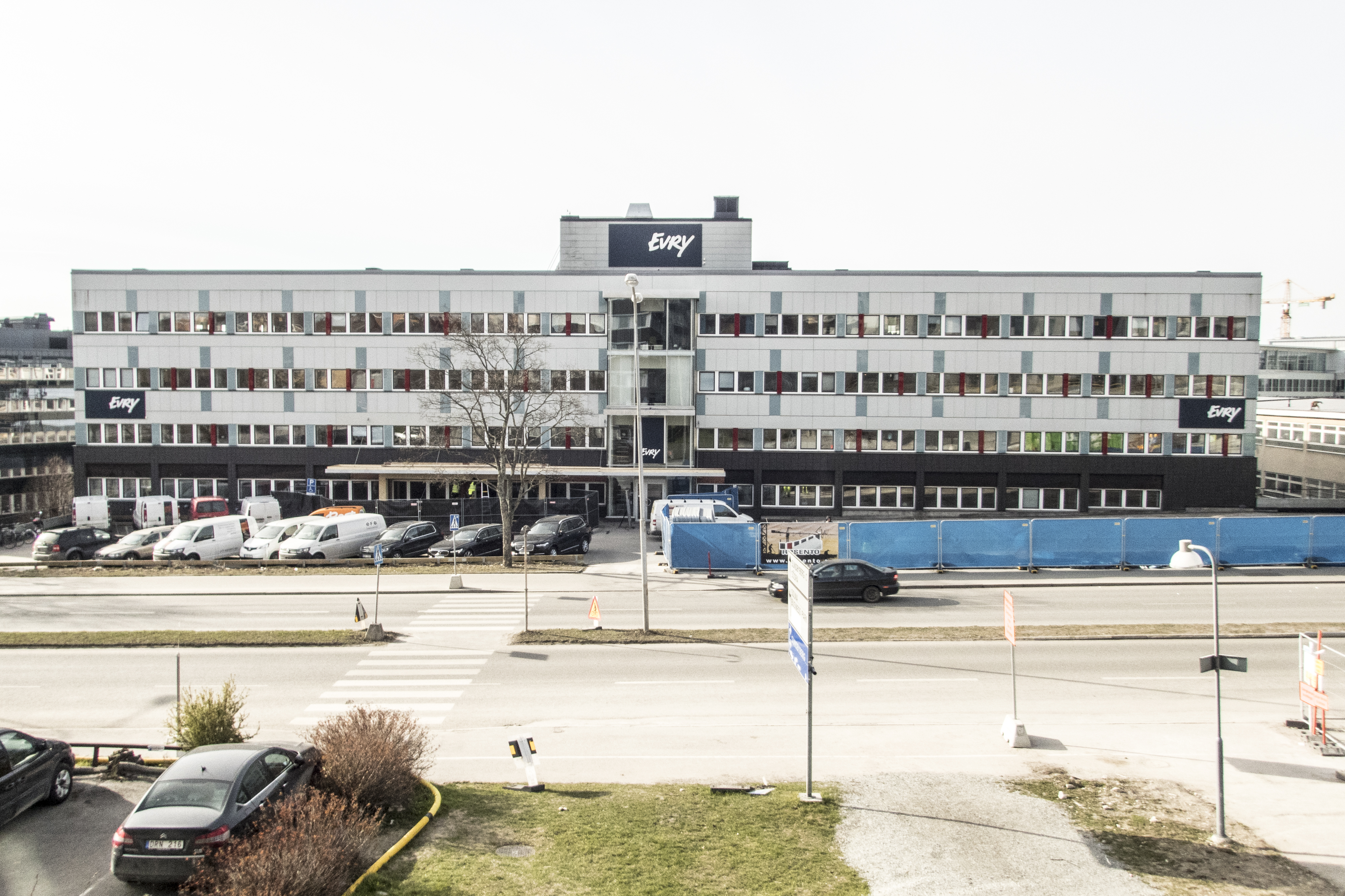 Evry, Swedish HQ, Solna